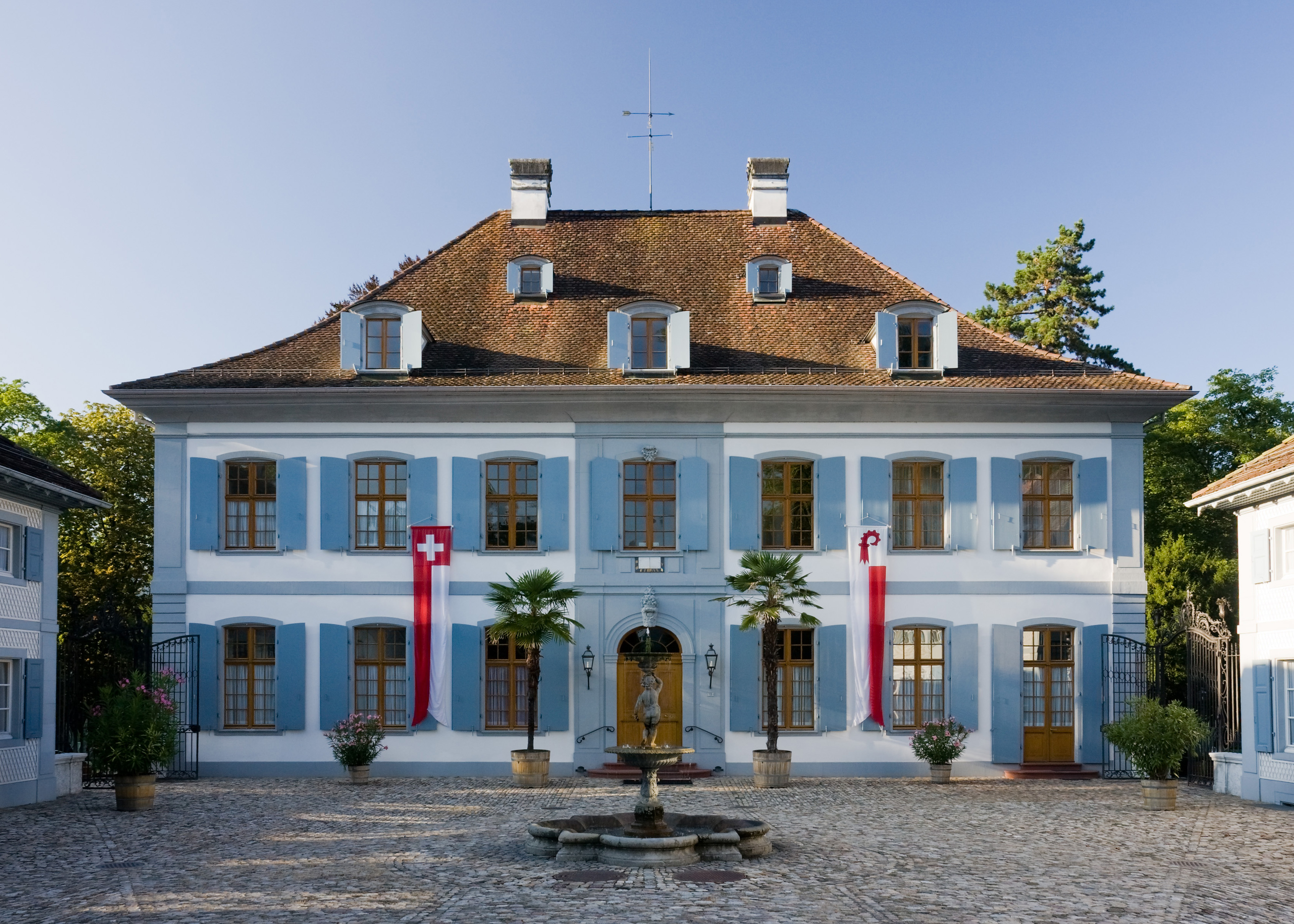 Ebenrain Castle in Sissach, Basel-Land canton, Switzerland.